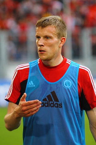 Latvian international football player Nauris Bulvītis